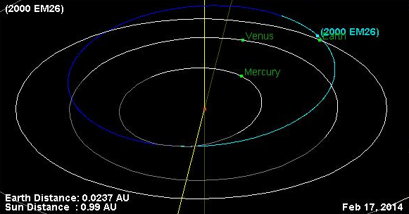 Orbit Diagram